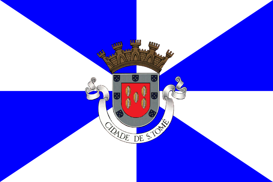 (Flag of the city of São Tomé, São Tomé e Príncipe, during Portuguese rule (may be still in use). Emerson)